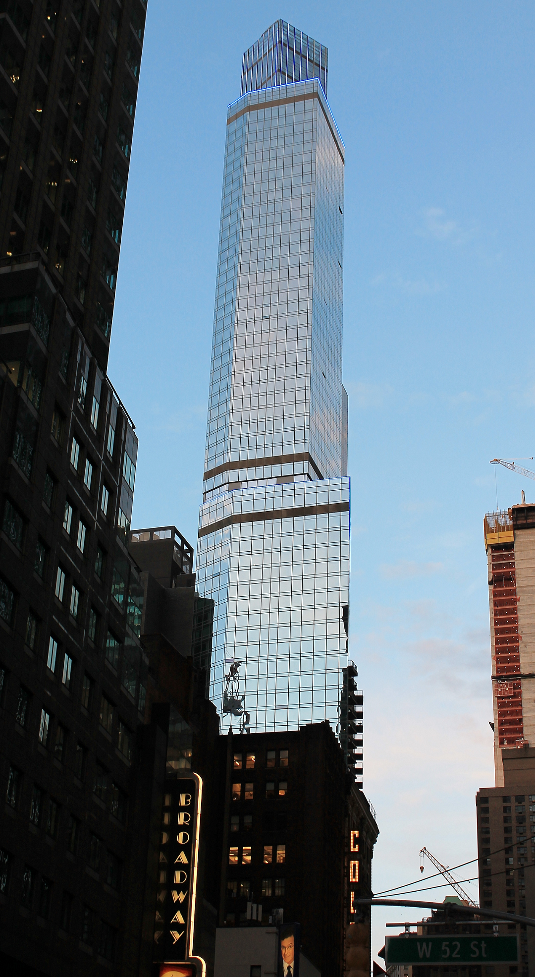 1717 Broadway seen on 8 February 2017.